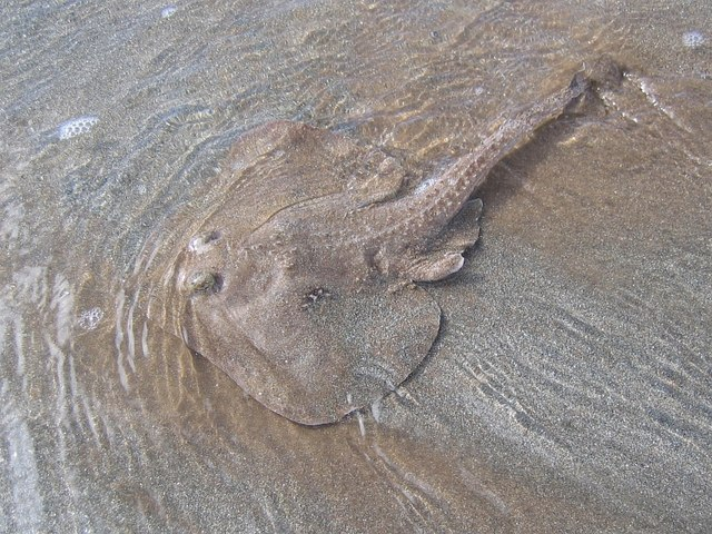 Washed up ray on East Sands